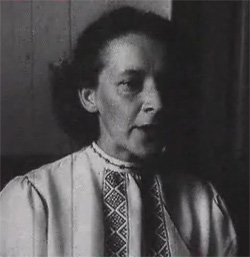 Photograph of Nadzeia Abramawa, founder of the Union of Belarusian youth (taken from German newsreels)